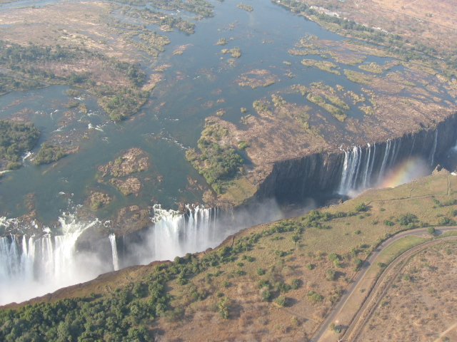 Photograph of Victoria Falls from a Helicopter. Own work 30 August 2005, 18:52:45 Katherine Howells